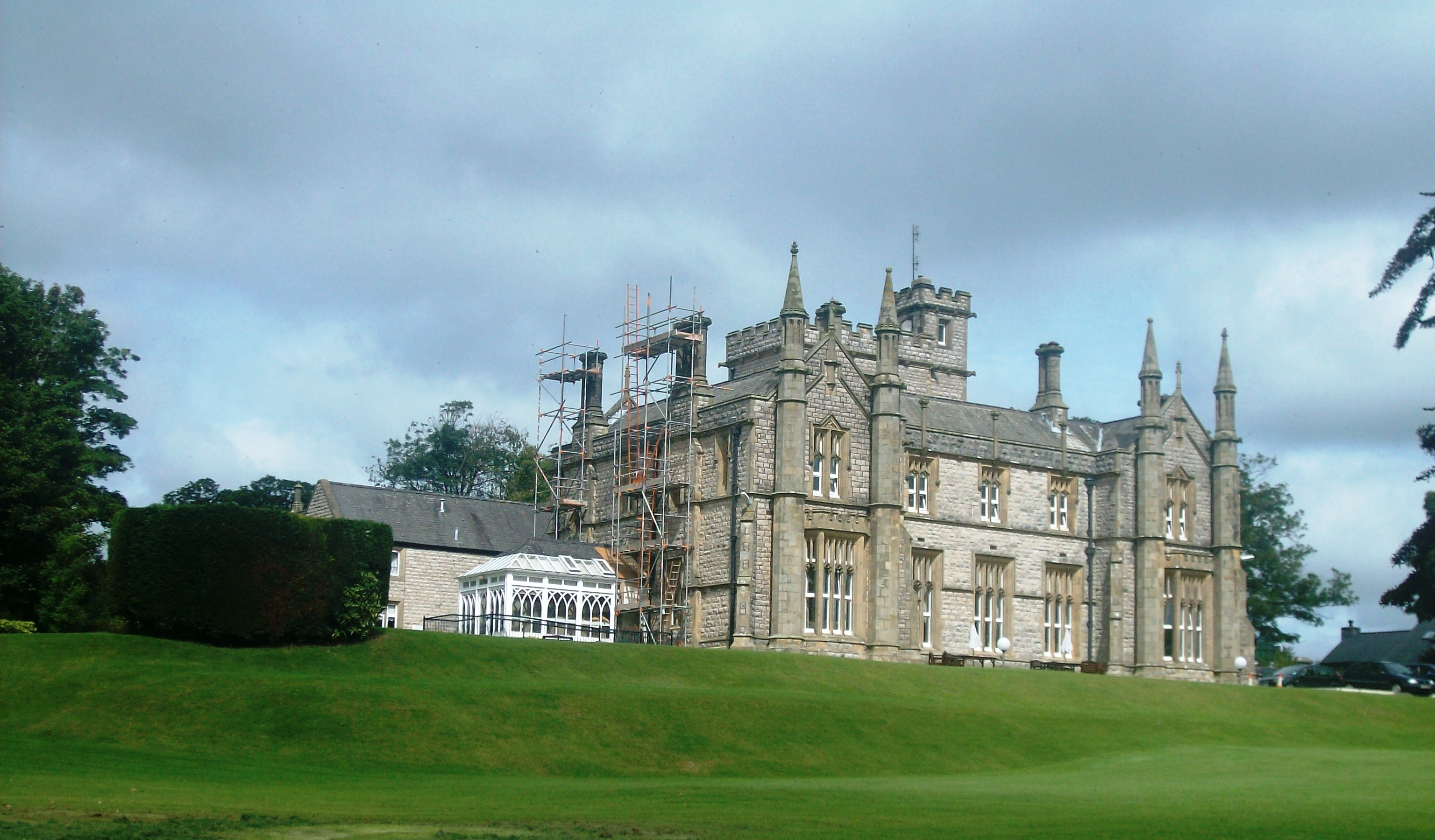 Aldingham Hall in Aldingham, Cumbria. It began construction in 1846 by Dr. John Stonard and was finished by Edward Jones Schollick, his man servant, upon Stonard's death. It is now used as a home for the elderly. The conservatory is obviously modern.